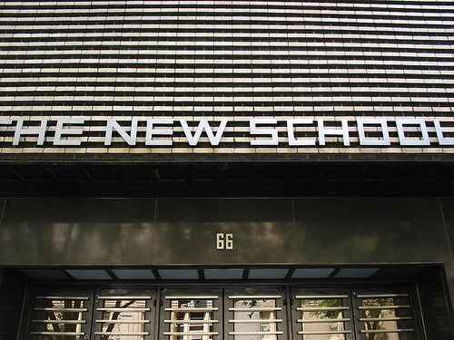 Front of The New School's 66 W 12th street building.